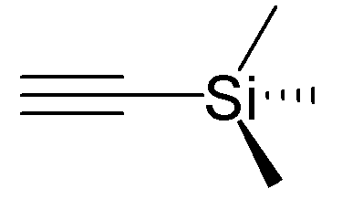 Trimethylsilylacetylene